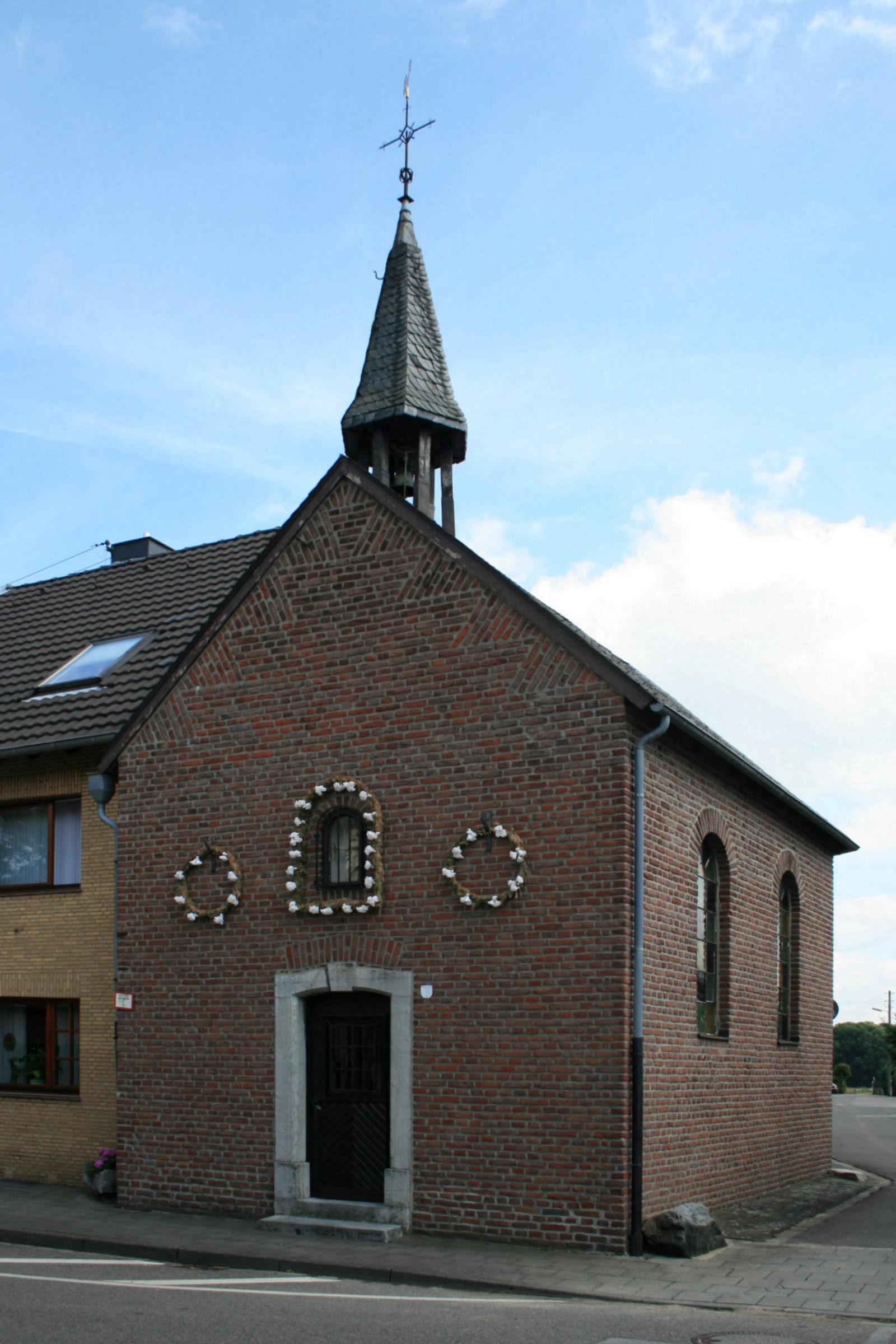 Cultural heritage monument No. G 020 in Mönchengladbach